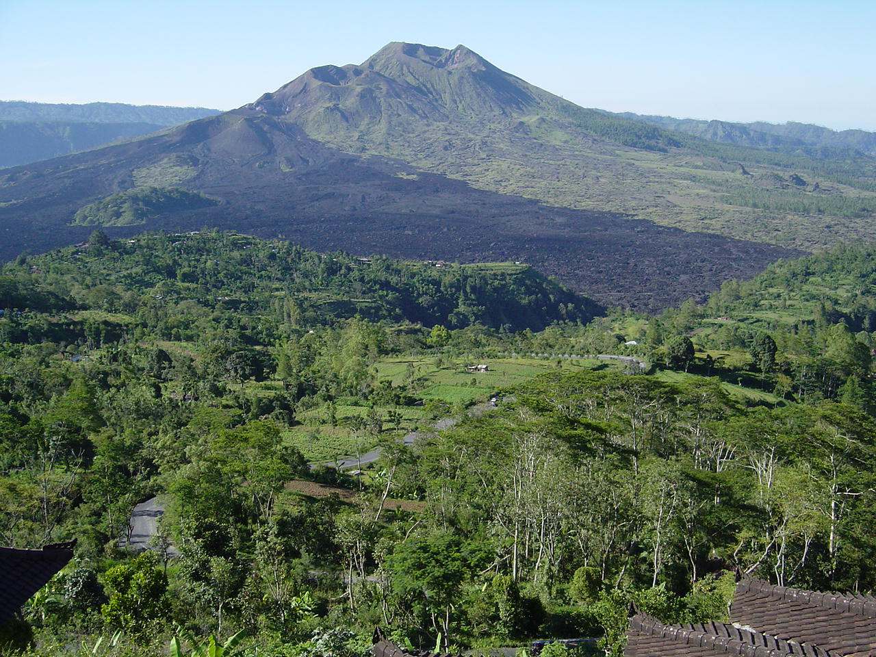 Mount Batur (Gunung Batur). Active volcano on the island of Bali, Indonesia.